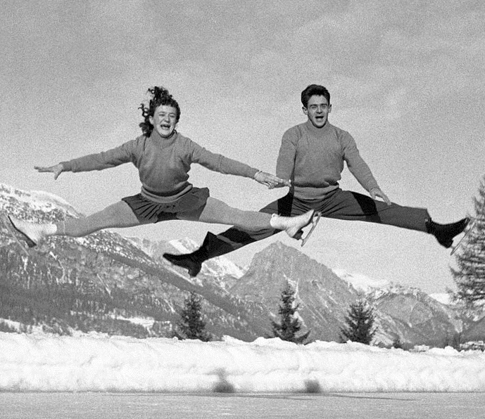 Hungarian figure skaters Marianne Nagy and Laszlo Nagy performing a jump during the VII Olympic Winter Games. Cortina d'Ampezzo, 1956